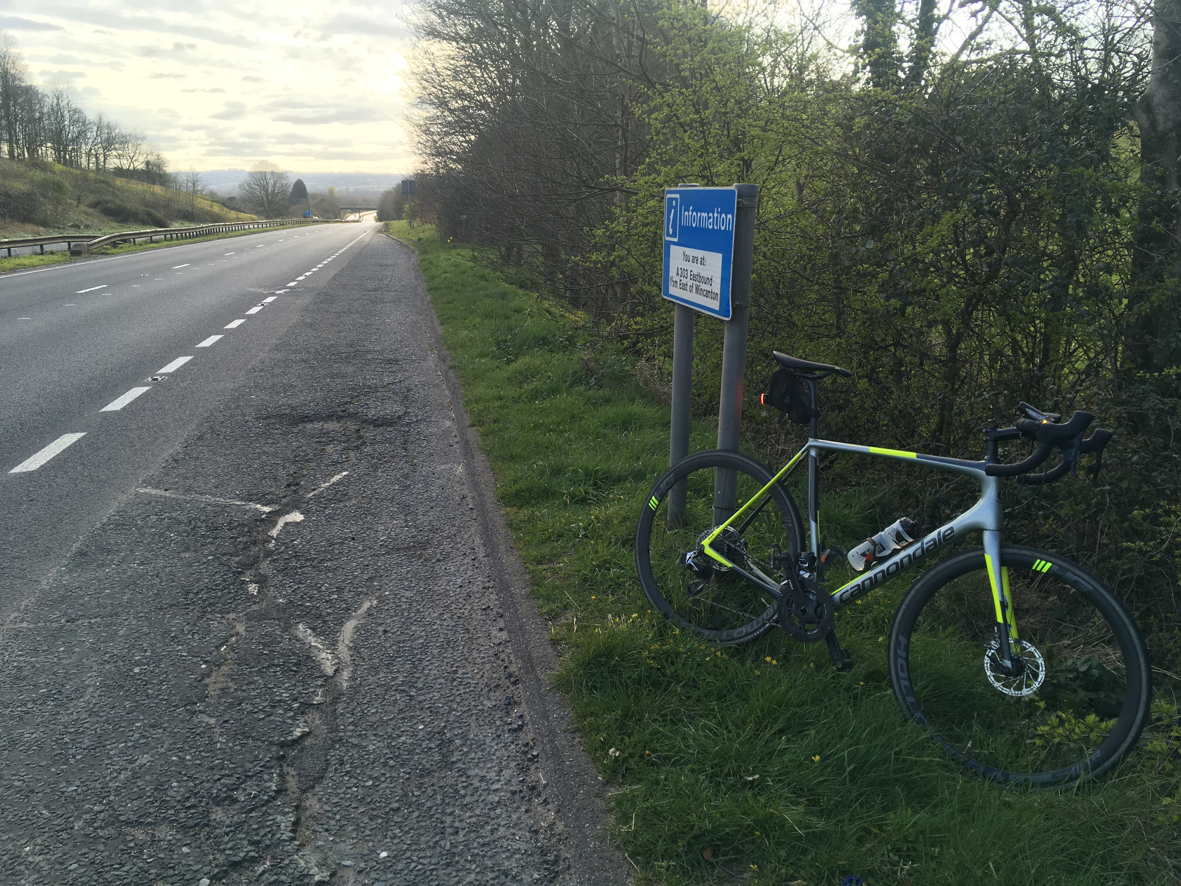 Cycling on the A303, empty due to the COVID-19 lockdown.